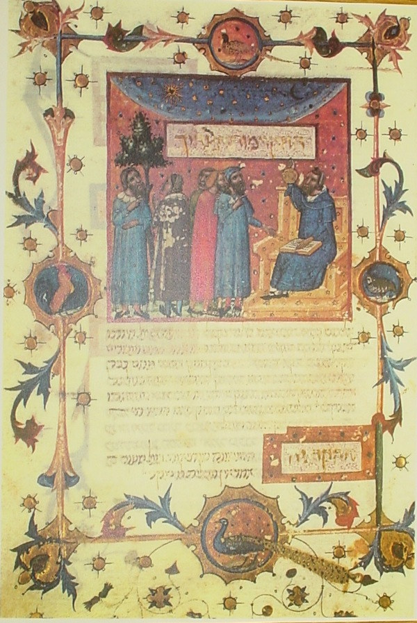 Facsimile of a page from Maimonides' great philosophical work Moreh Nevukhim (Guide of the Perplexed) written originally in Arabic and here in the Hebrew translation of Samuel ibn Tibbon (ca. 1160-1230) copied and illuminated in Barcelona, 1348. The seated figure is holding an astrolabe. Royal Library, Copenhagen, Cod. Hebr. XXXVII, fol. 114r [Ex. No. 70]